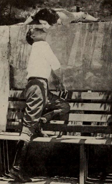 Actors Buck Jones and Patsy De Forest play acting between scenes, on page 66 of the September 18, 1920 Exhibitors Herald.